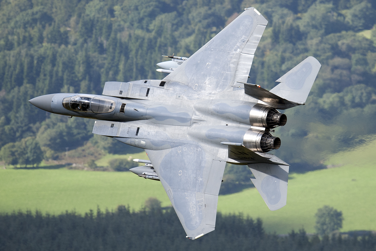 Eagle in mach loop, Wales, UK